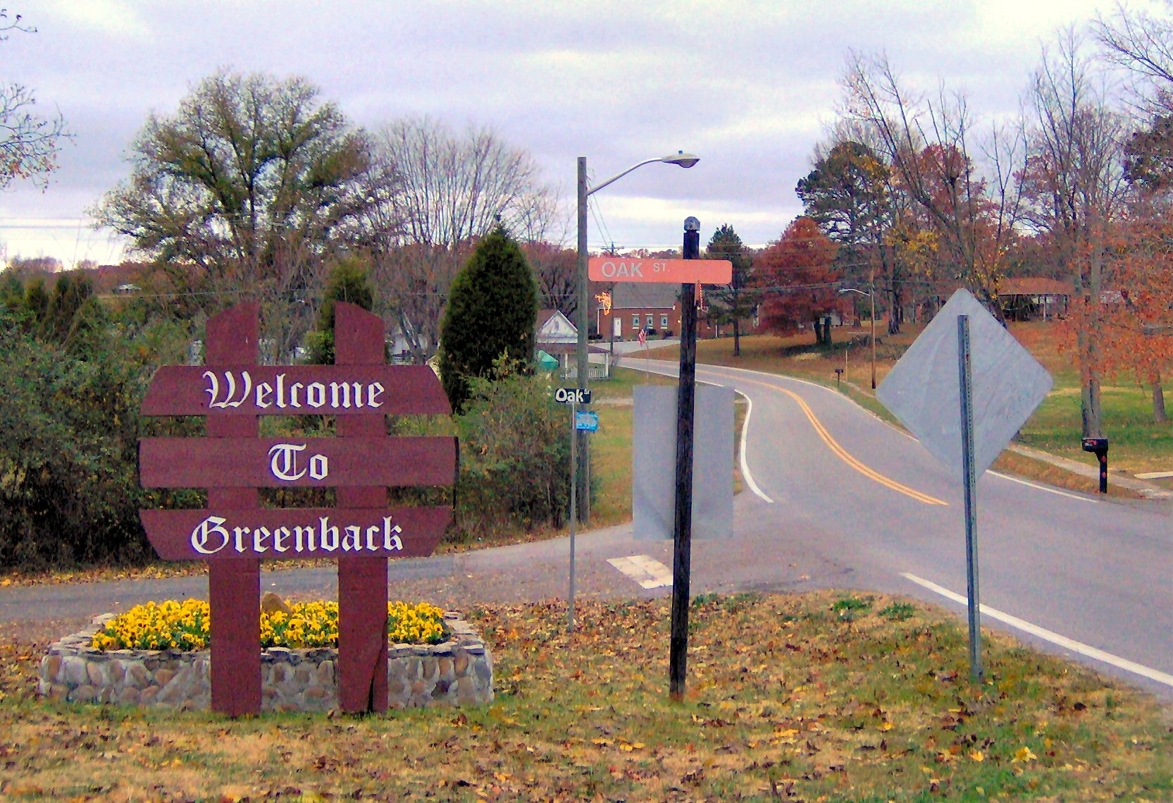 Welcome sign along Morganton Road in Greenback, Tennessee, located in the Southeastern United States.